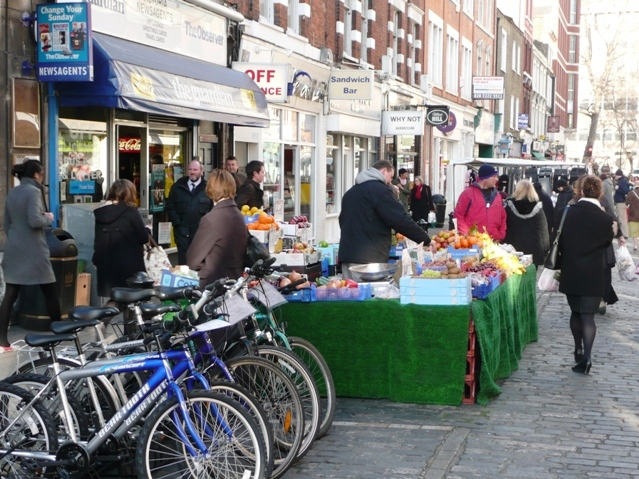 Strutton Ground market This must be a daily market as I have occasion to visit this area about three times a year and it's always there.